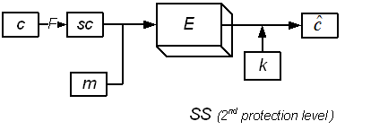 Steganography: the Second Protection Level Security Scheme